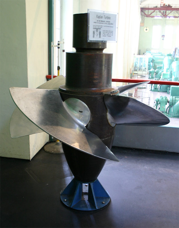 A Kaplan turbine in the Walchensee powerplant